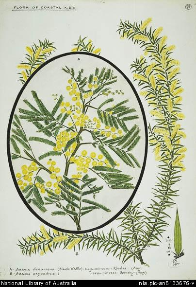 Acacia decurrens (Black wattle), Acacia oxycedrus 1922